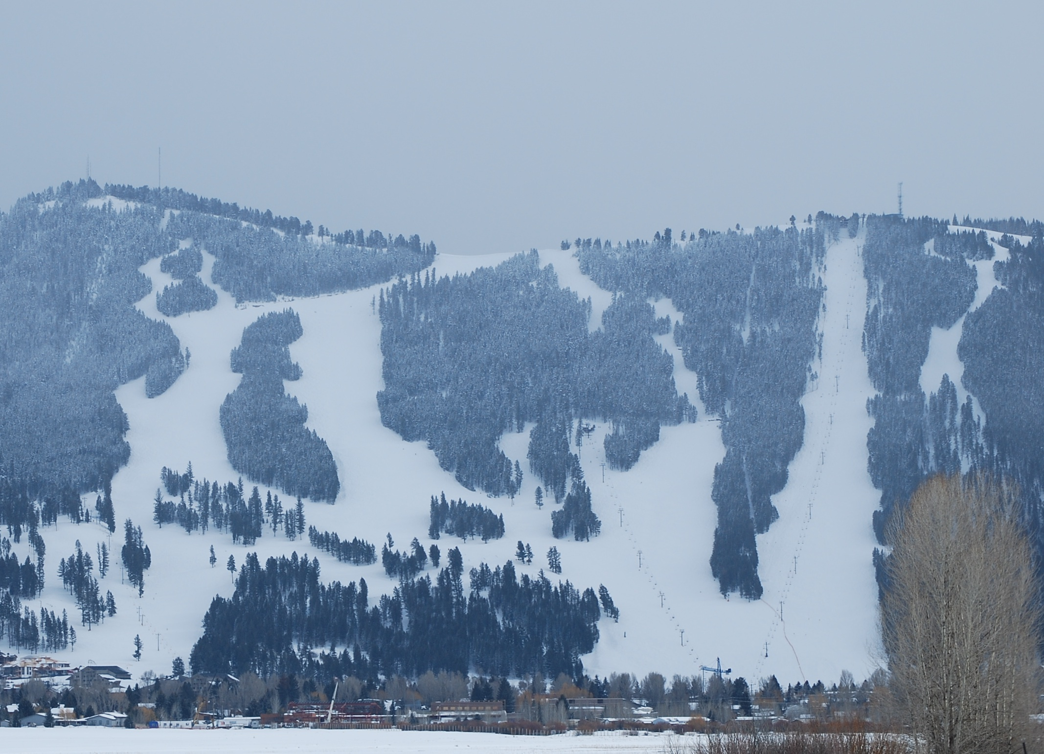 A view of Snow King from the north, with Jackson, WY in the foreground.